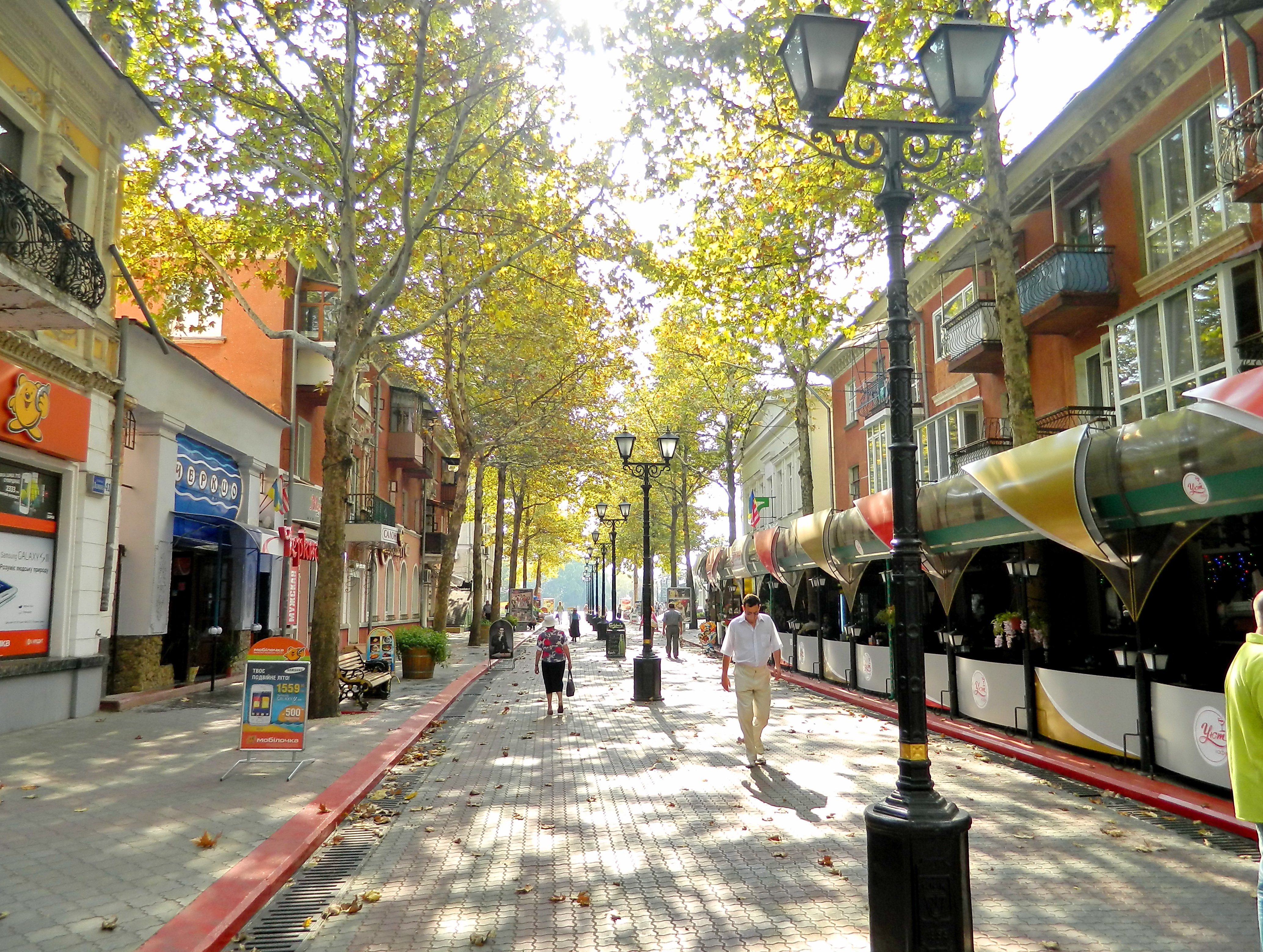 Kerch. September morning. Main street.